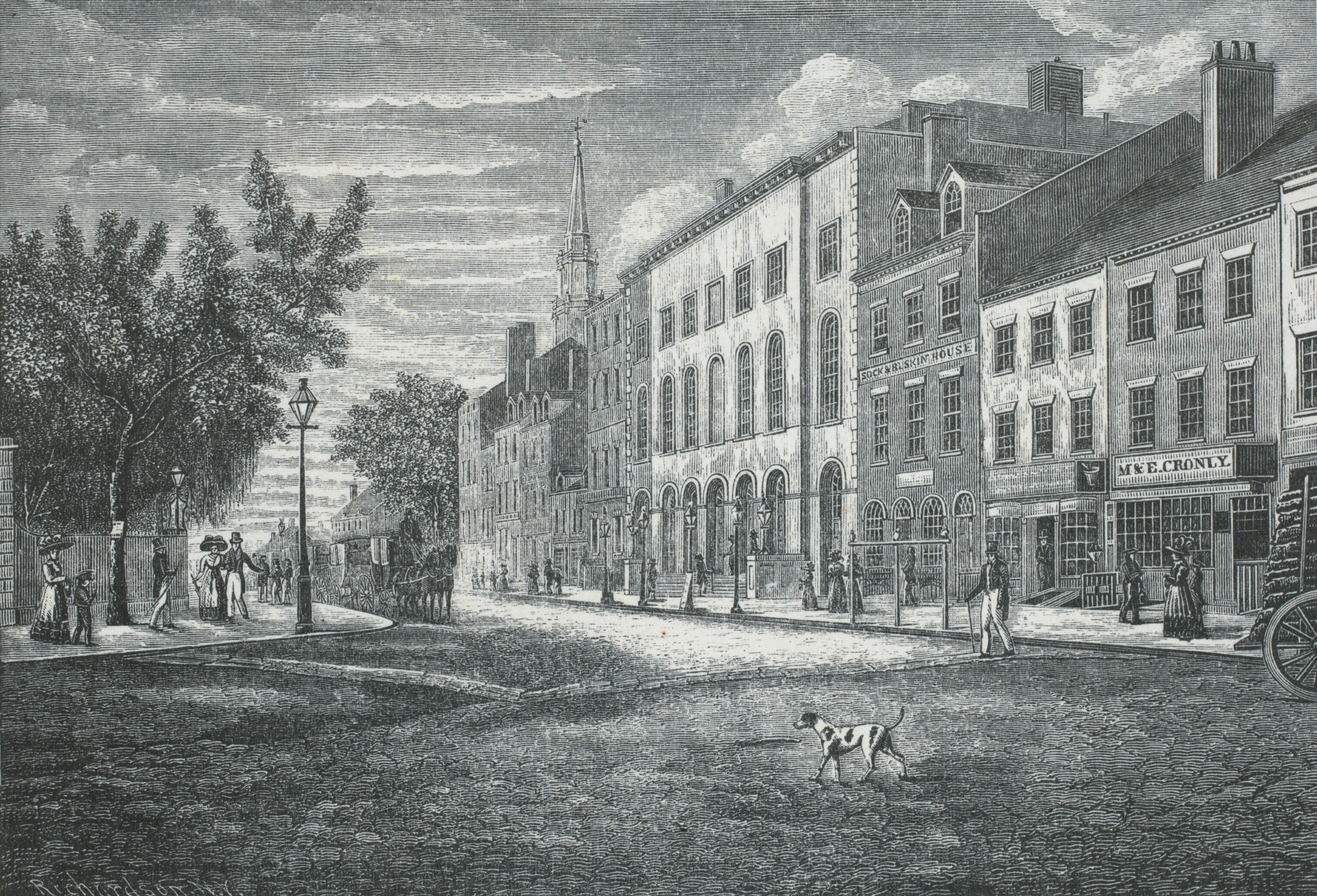 View of Park Row and the second Park Theatre, Manhattan, New York City, 1830